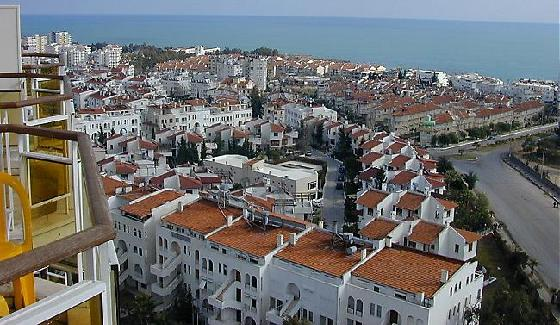 Lara, Antalya, Turkey. Photo created by user:sunrise1 2006.